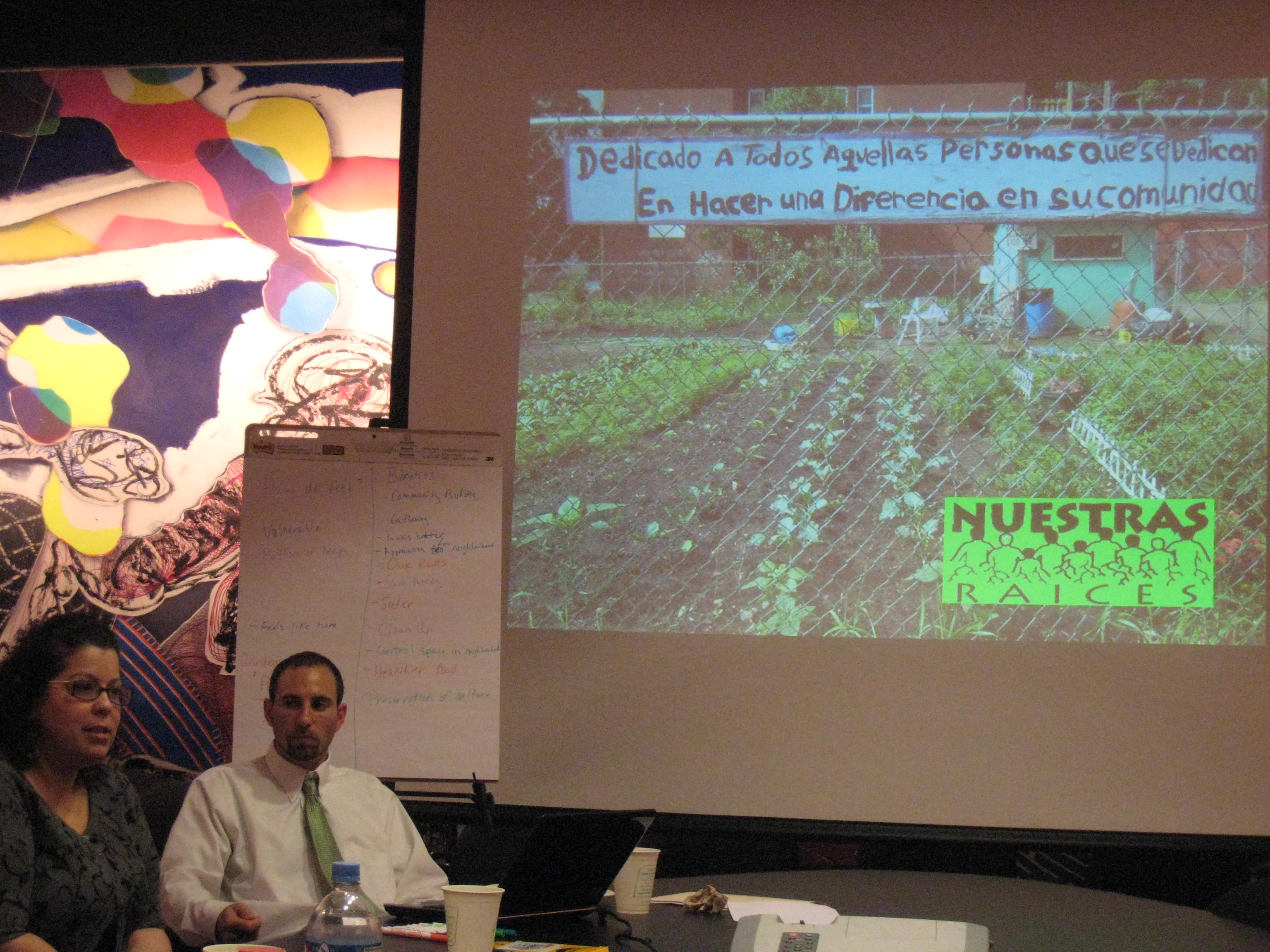 A presentation being given at MIT on the community garden, agricultural training, and food justice work being done at Nuestras Raices, a grassroots urban agriculture organization based in Holyoke, Massachusetts that has worked with the USDA and other government organizations in the past to encourage urban gardens.